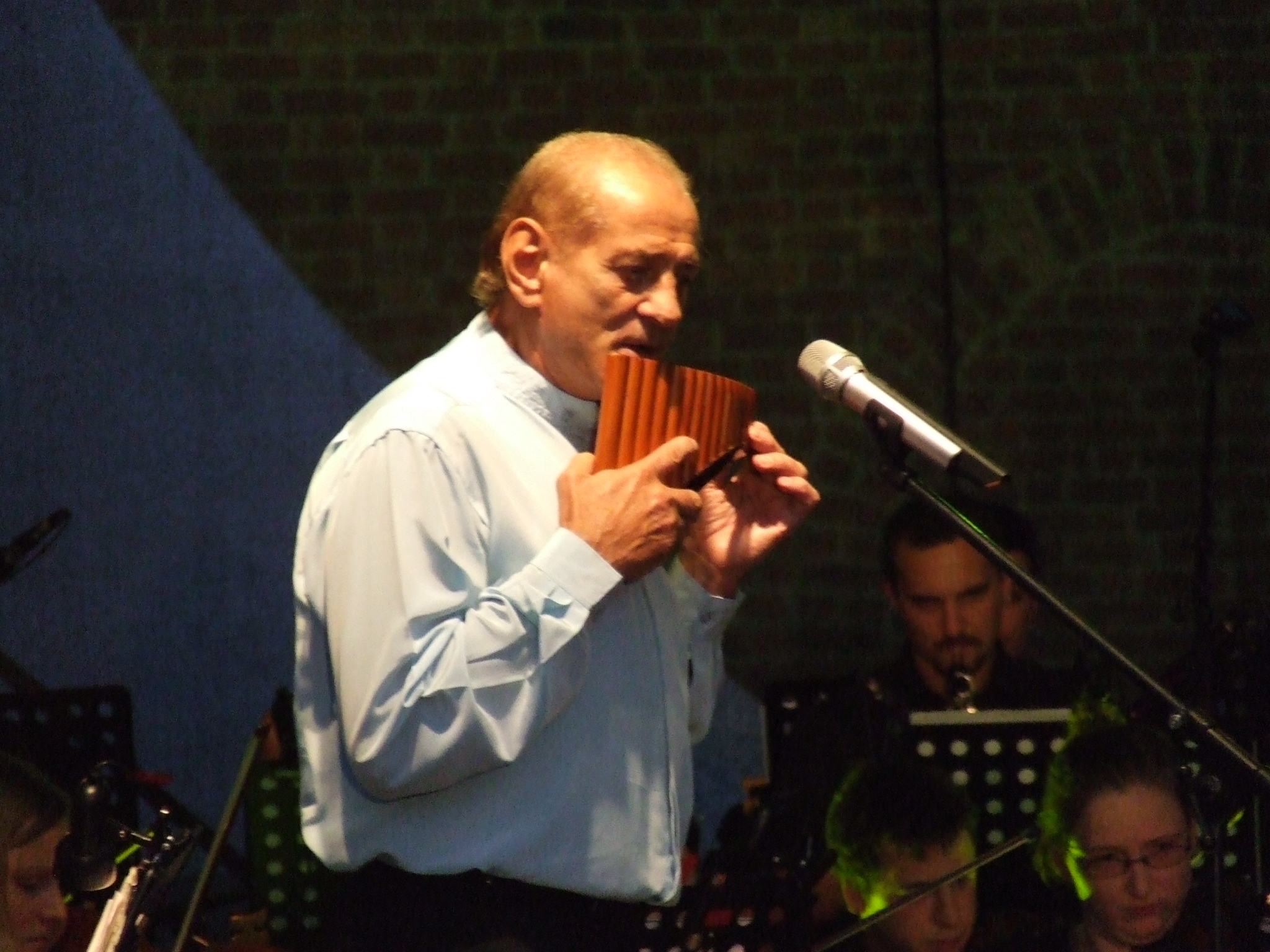 Gheorghe Zamfir, 10-th Crossroad Festival, Main Square in Cracow, 2008